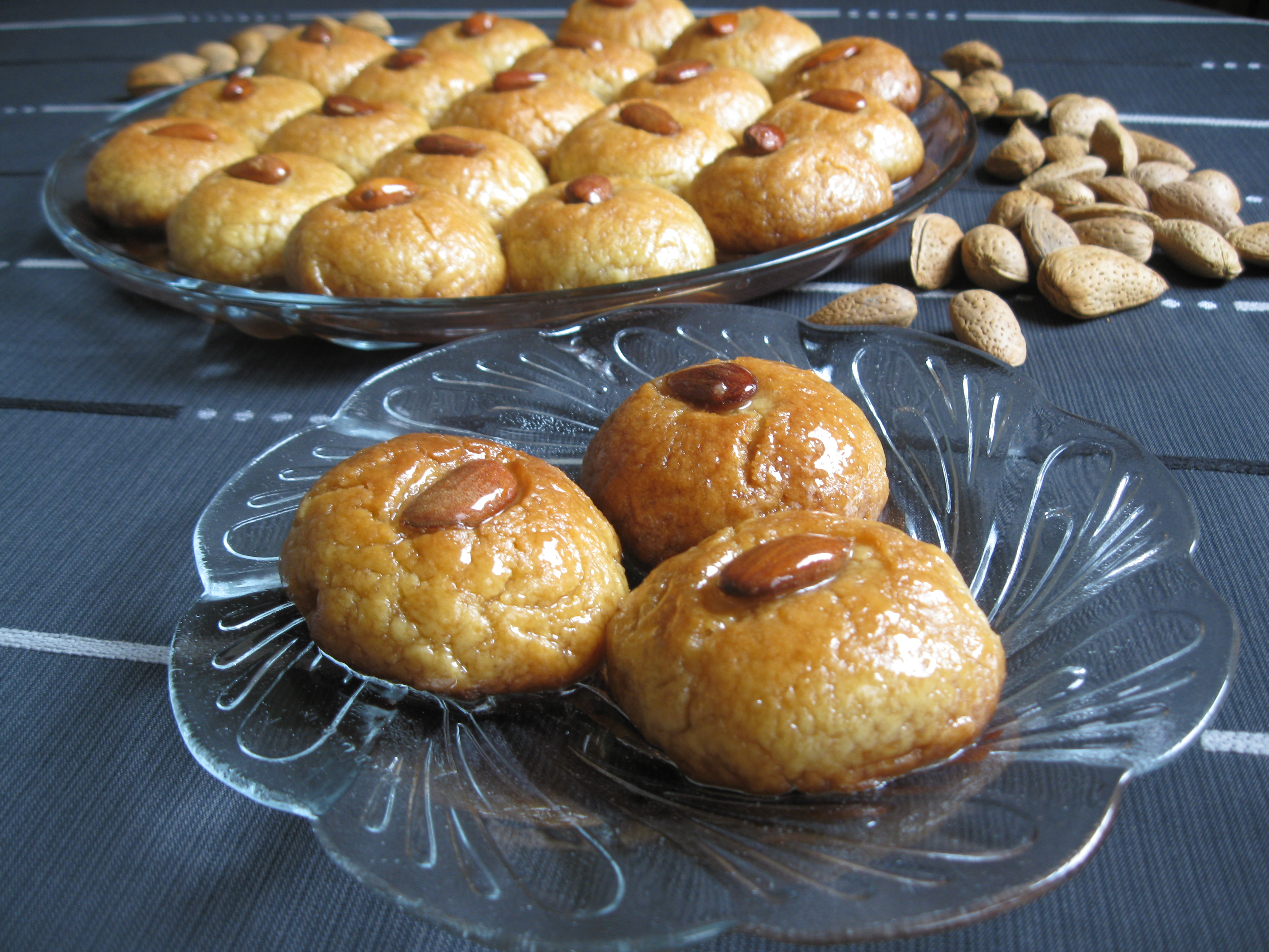 Ëmbëlsirë me bajame